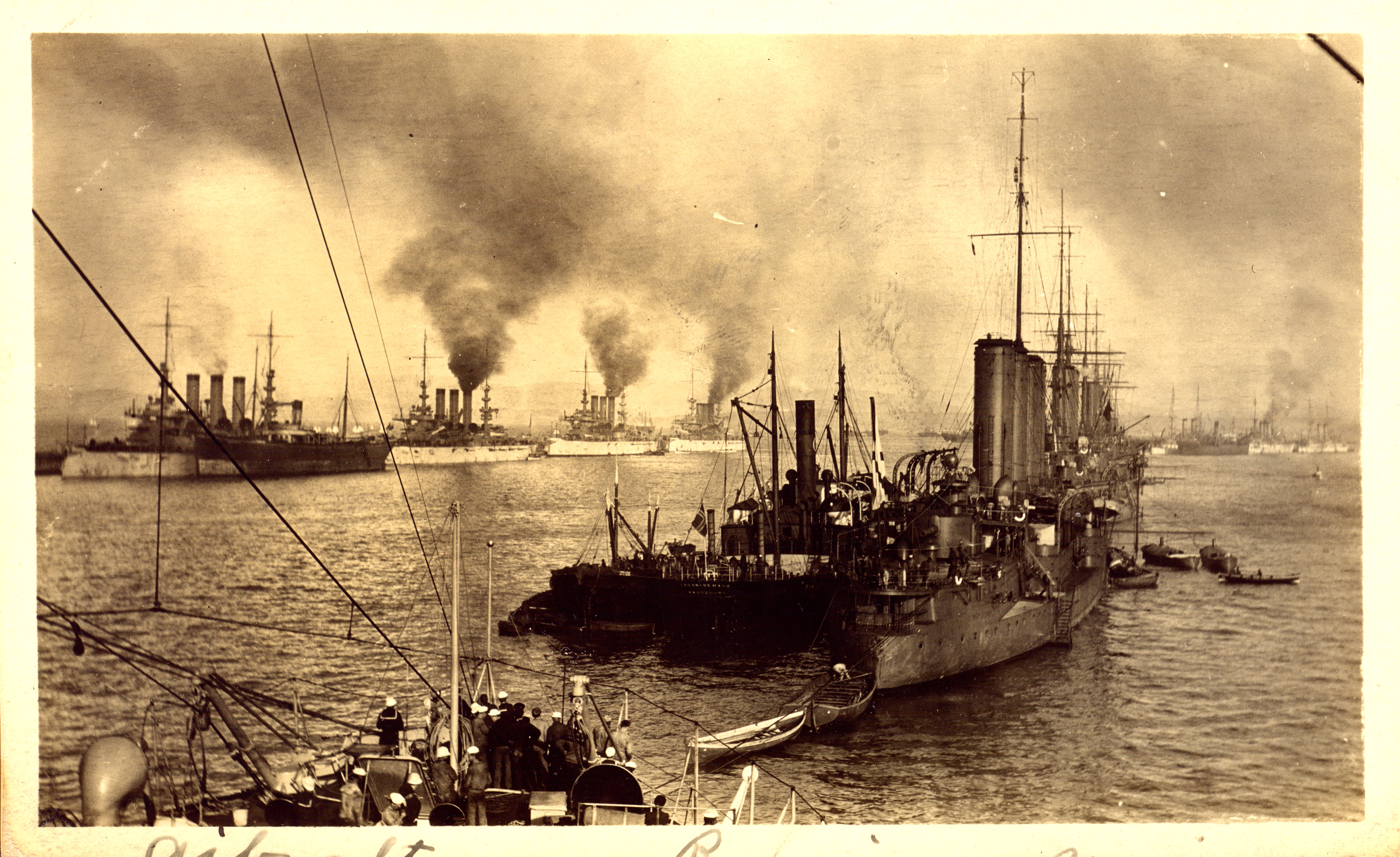 Scene at the Gibraltar Harbour.